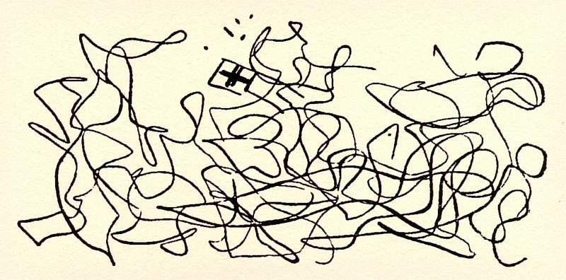 Caricature of Matejko's image "Bitwa pod Grunwaldem"